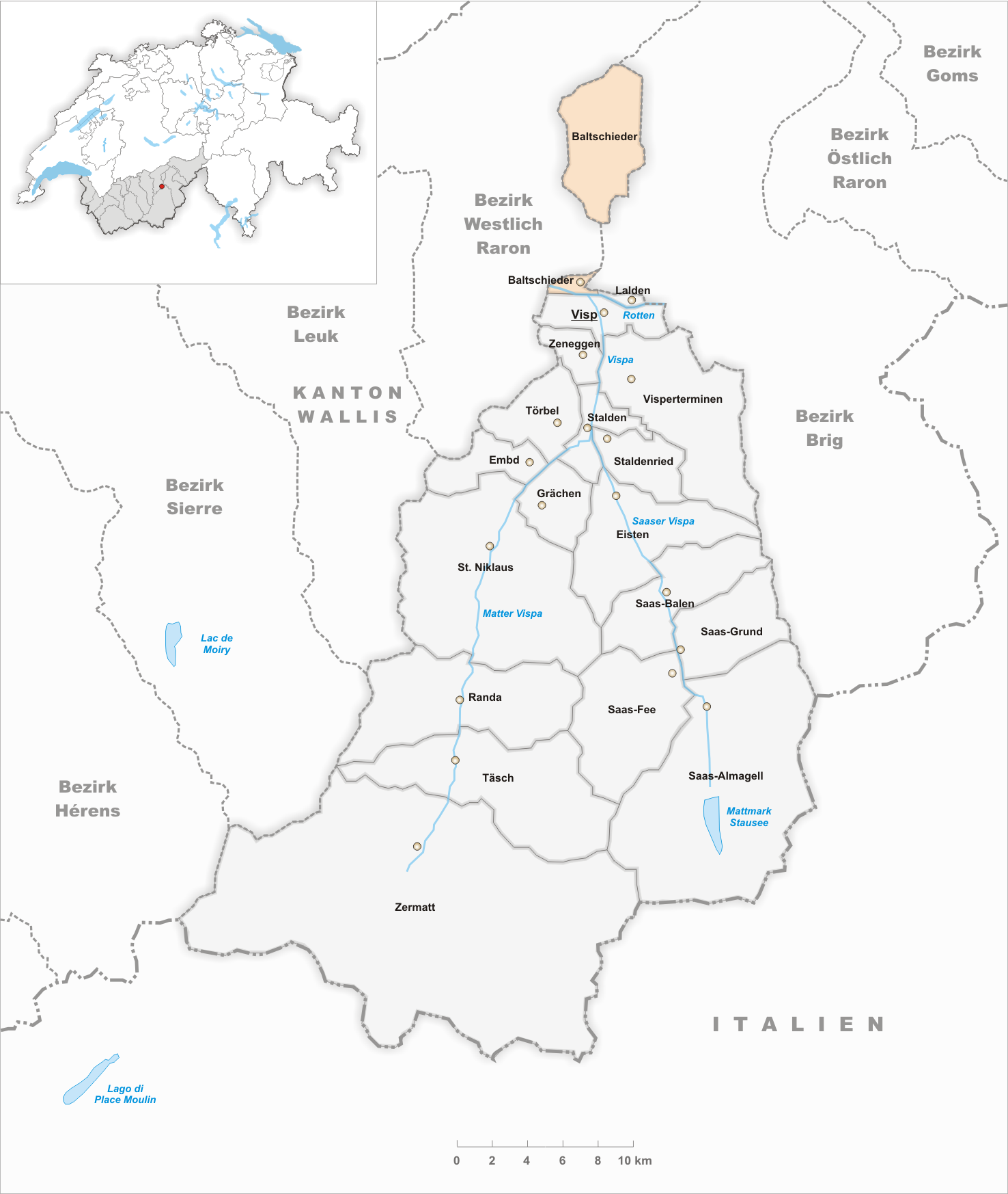 Municipality Baltschieder